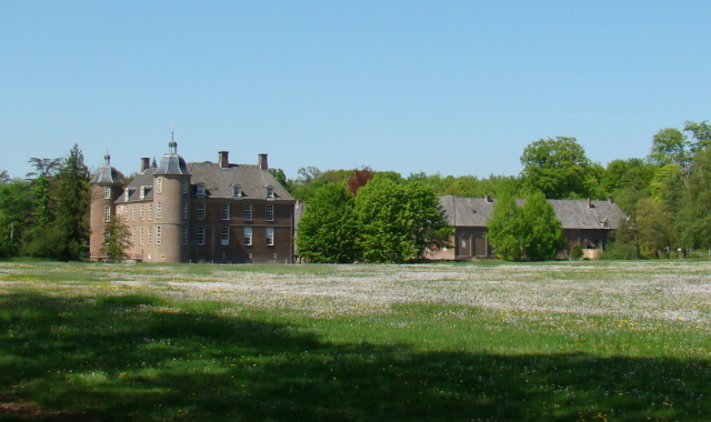 Castle Slangenburg Doetinchem